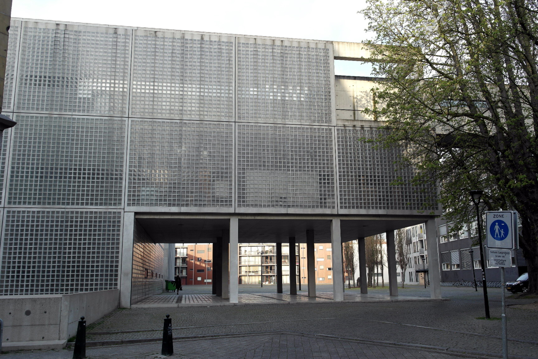 Maastricht, the Netherlands. View from the south of the 1990-93 extension of the Maastricht Art School by Wiel Arets at Herdenkingsplein.